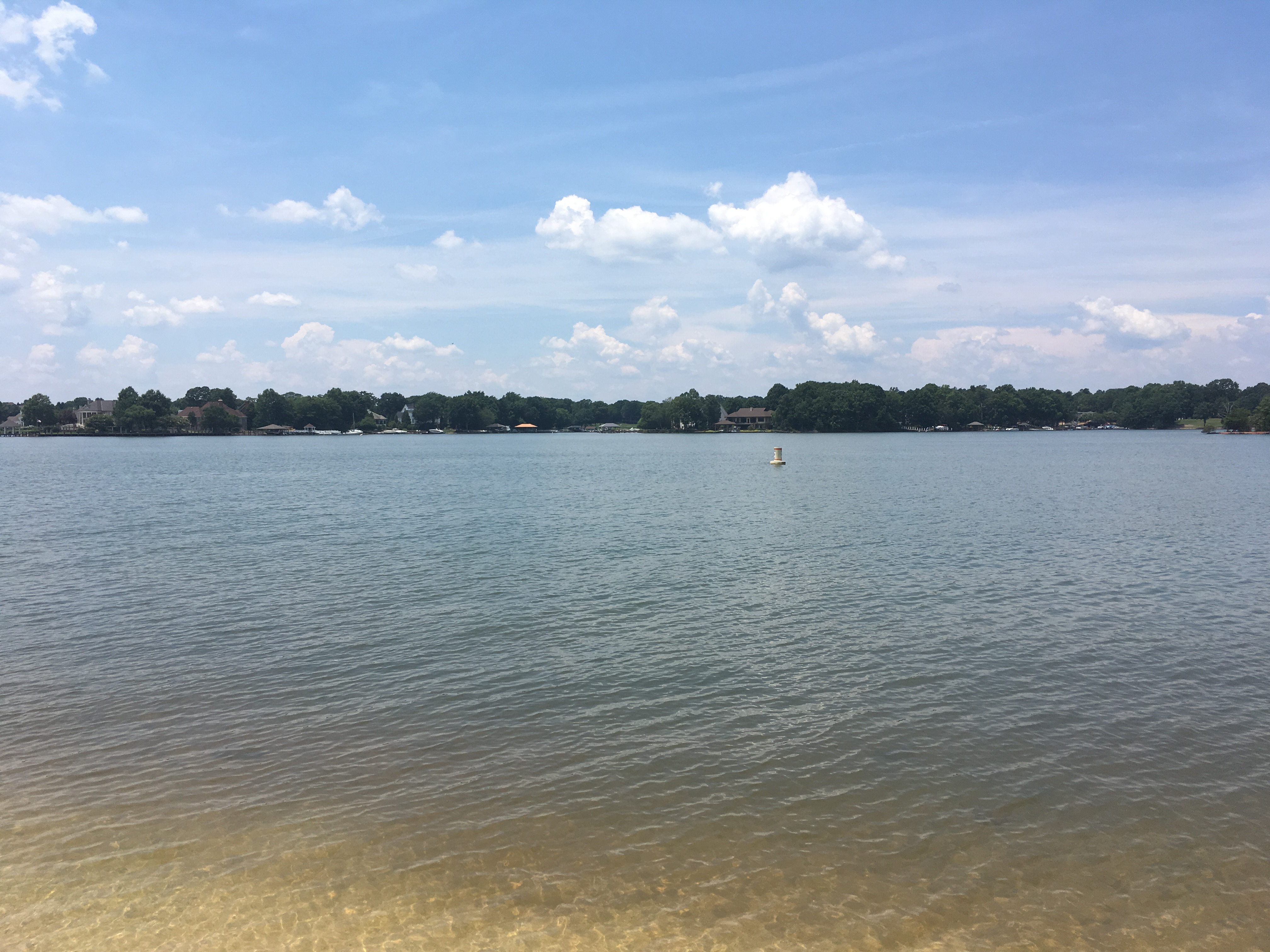 Lake Norman in Ramsey Creek Park in Cornelius, North Carolina